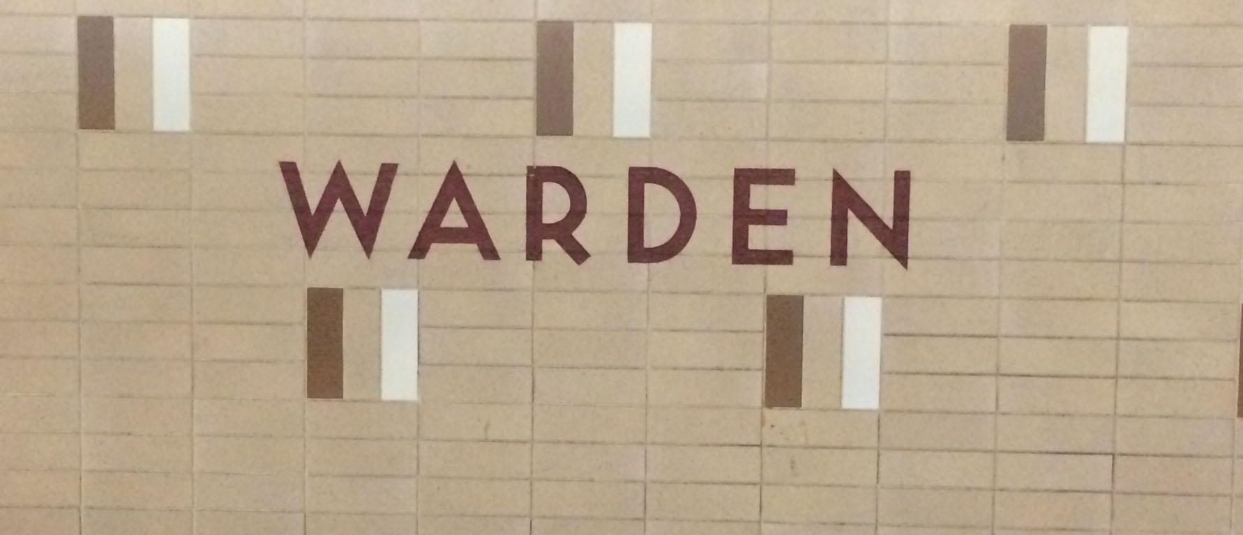 Warden TTC station.